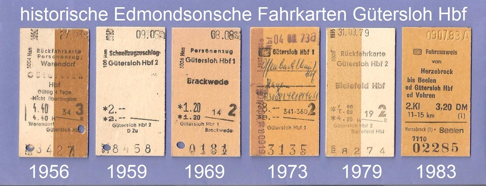 historic German railway tickets 2nd/3rd class from/to Guetersloh Central Station, made out between 1956 and 1983